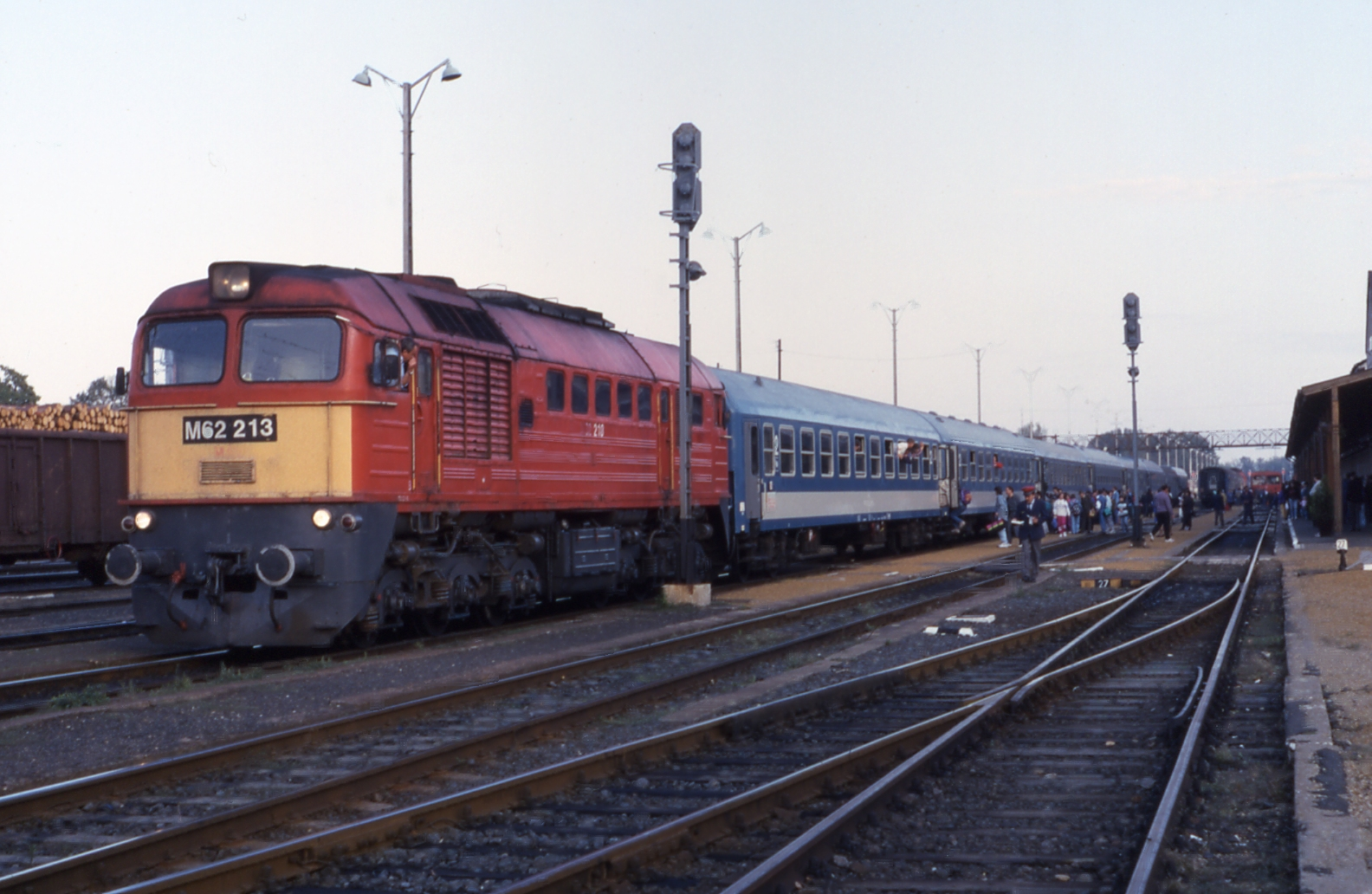 Taken on a busy Sunday evening, M62 213 is seen at Celldömölk on train 9231, 18:00 Celldömölk - Gyõr.